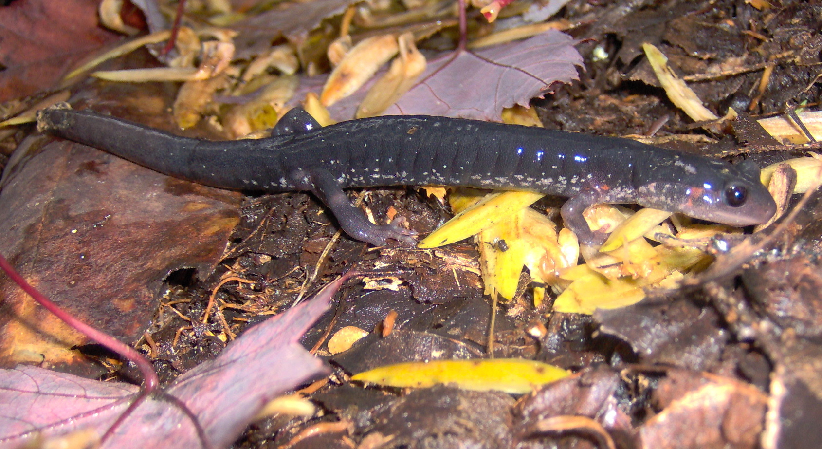 Jordan's salamander (Plethodon jordani), crawling through the leaf litter along the Baxter Creek Trail in the Great Smoky Mountains National Park of Haywood County, North Carolina, USA. This photo was taken at a point appx. three miles from the trail's Big Creek campground trailhead.